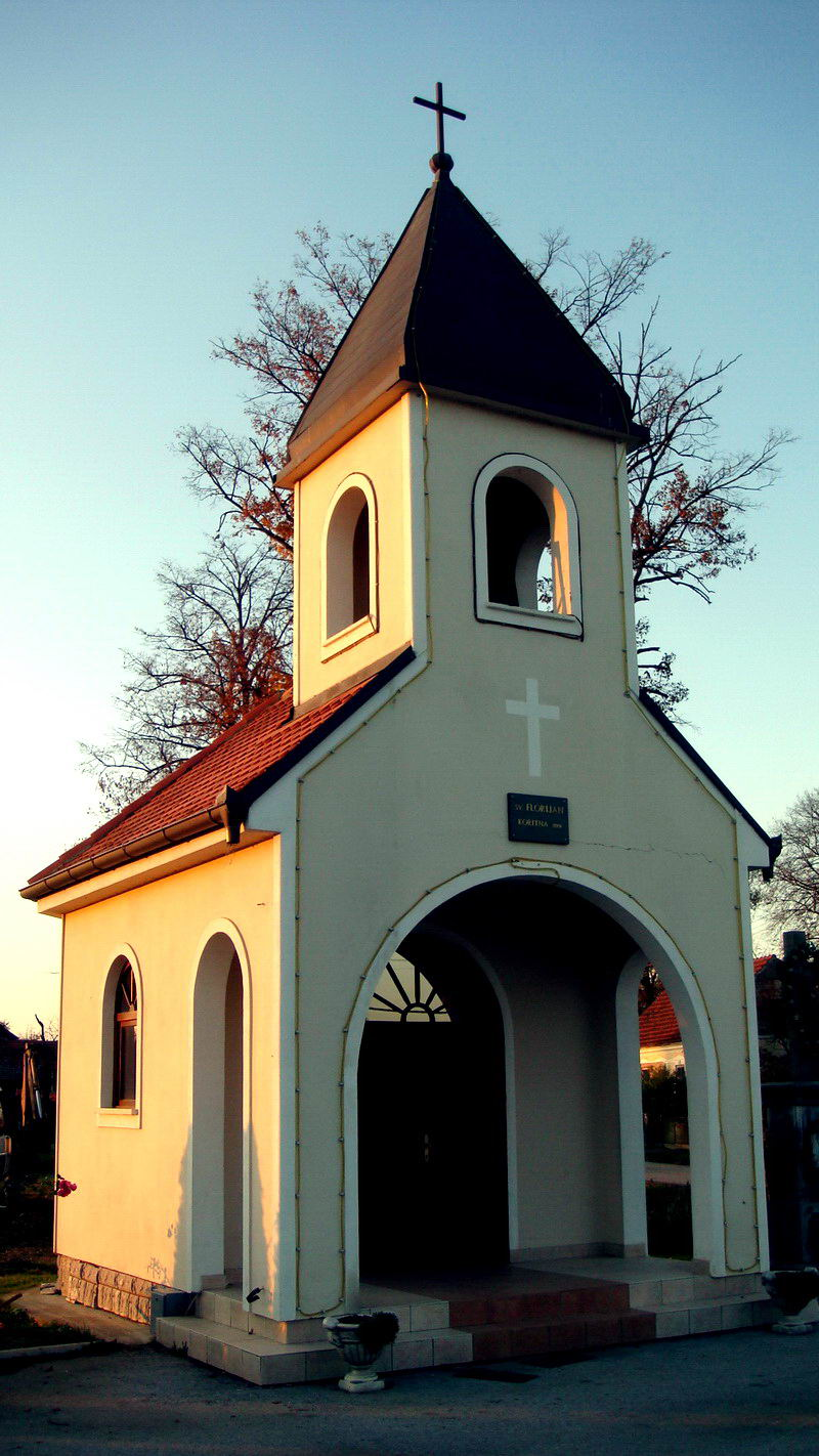 My 1000 Photo - The Chapel of St.Florian in Koritna